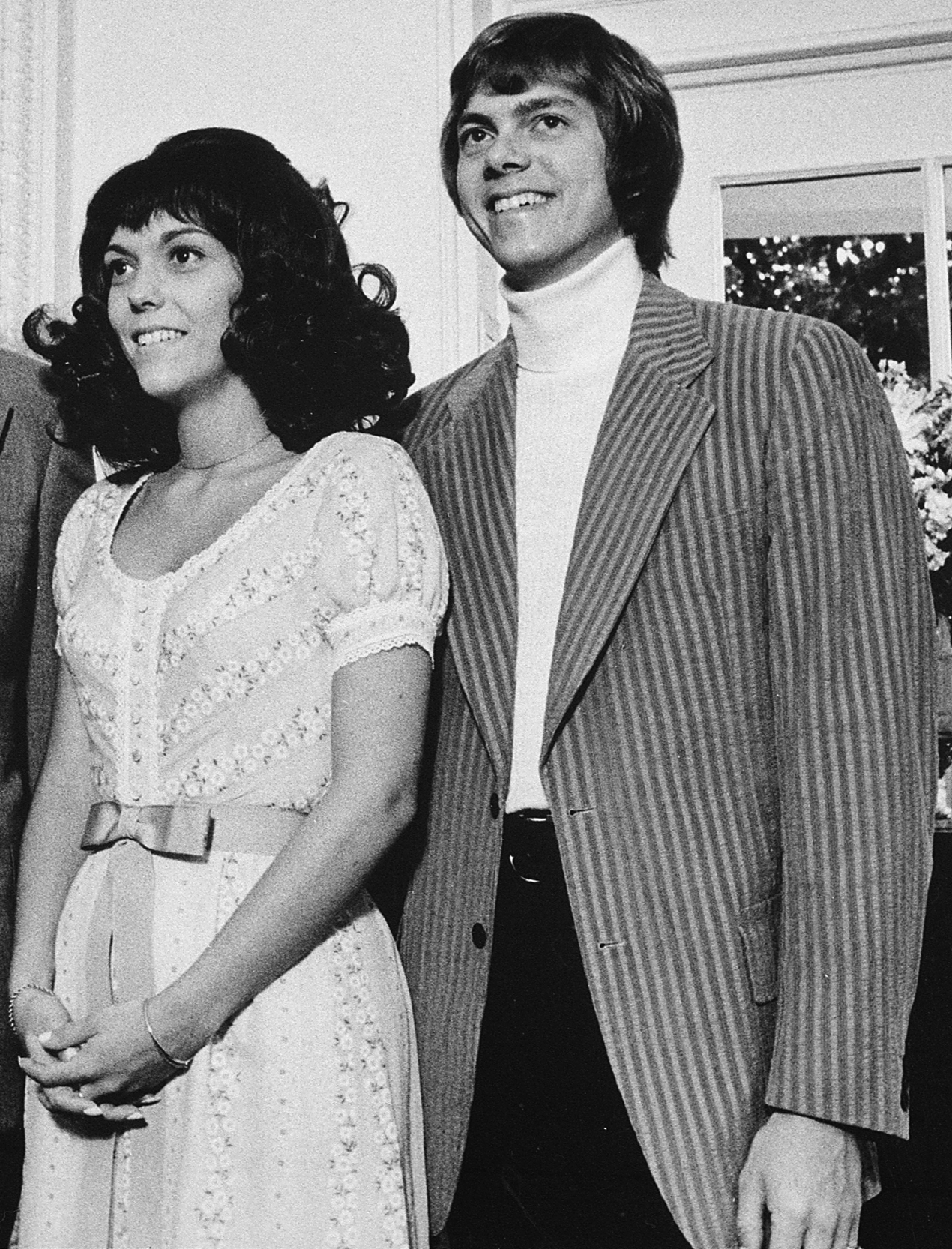 Richard Nixon (edited out of the photo) meeting with Karen and Richard Carpenter, 08/01/1972